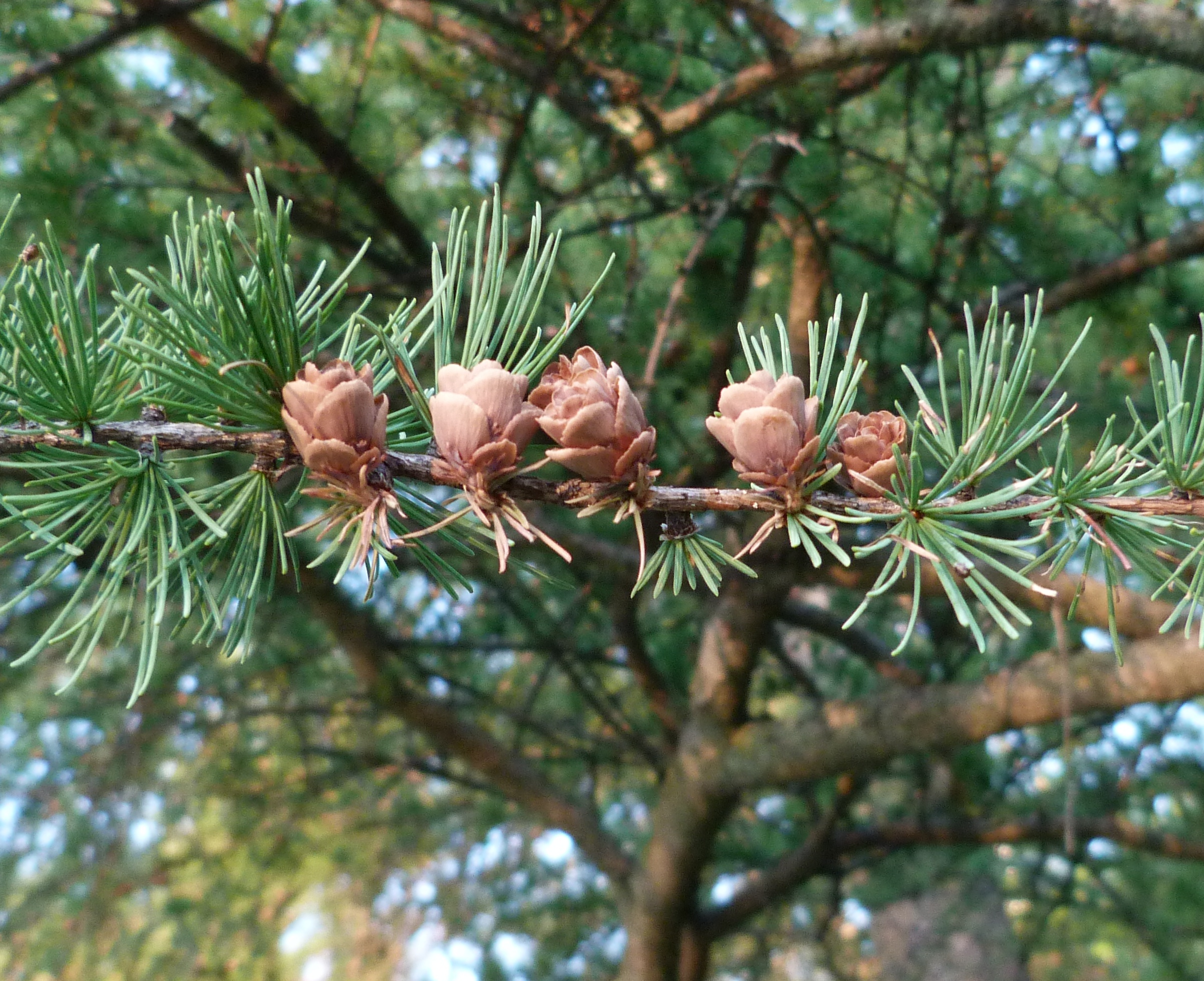 Tamarack Larch Larix laricina, Niagara-on-the-Lake, Ontario, Canada